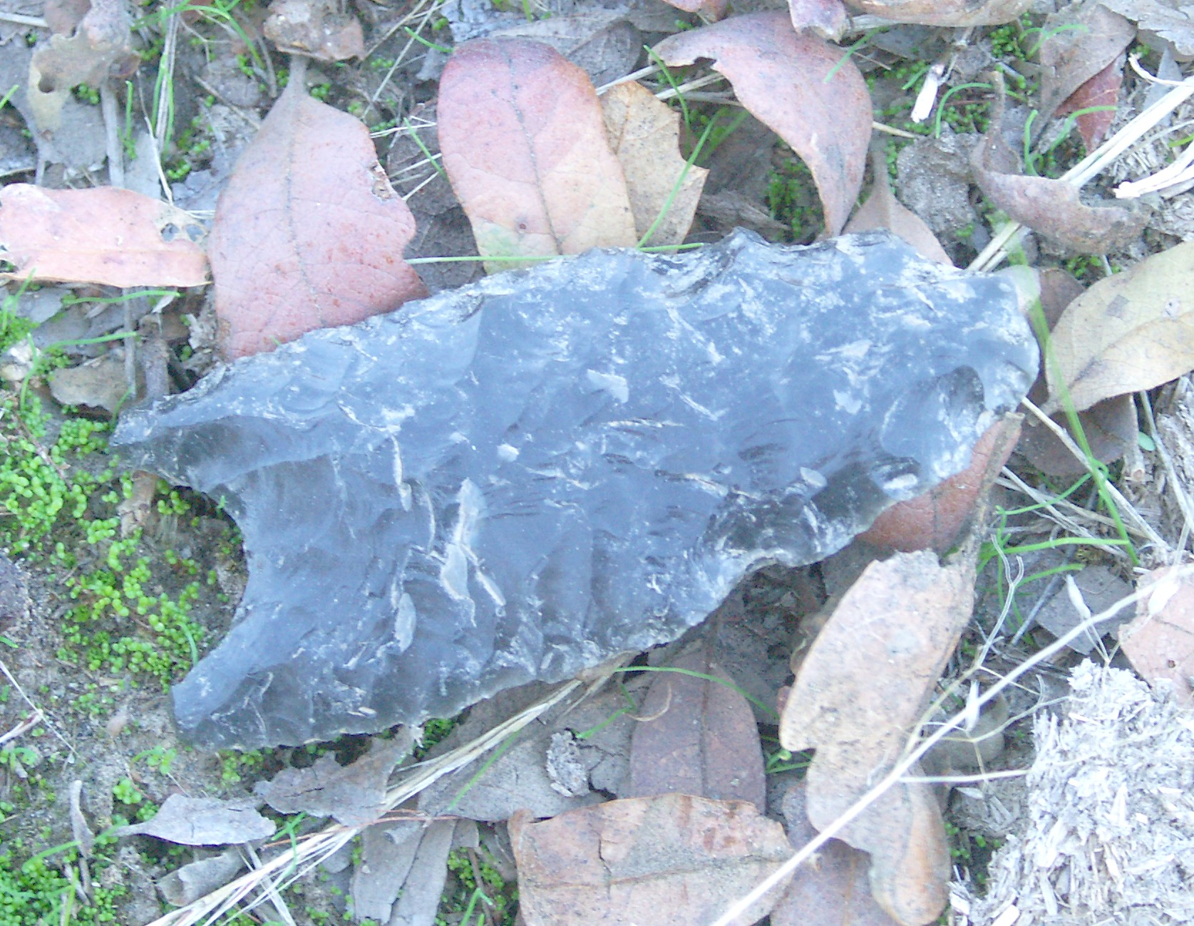 2.5 inch Obsidian dart point found in Watts Valley, Fresno County, California in 2008.